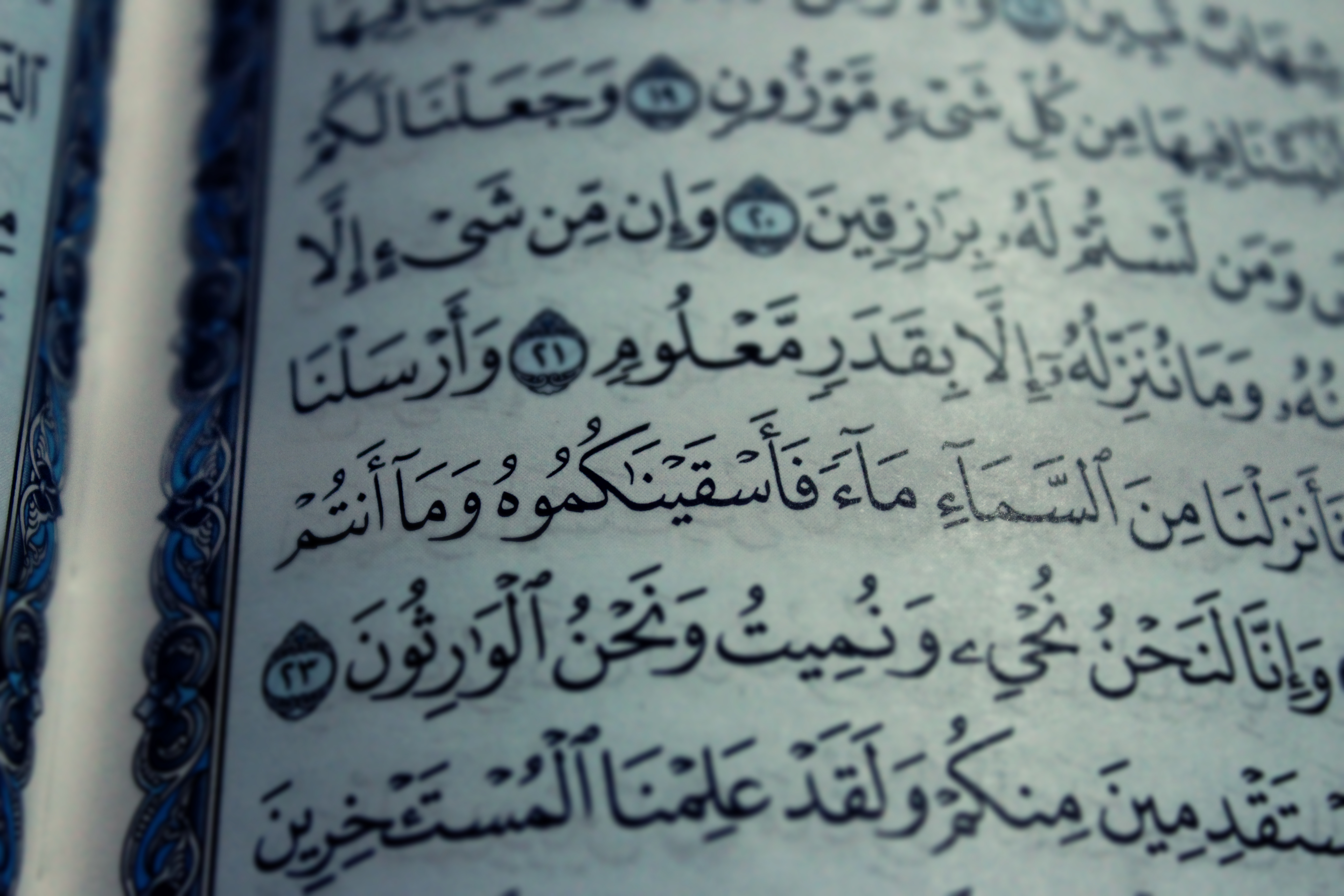 The longest word in the Qur'an فأسقيناكموه (’fa’asqaynakumuhu, "and We gave it to you to drink").